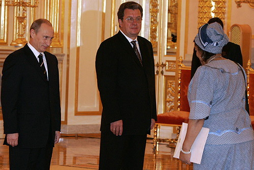 THE GRAND KREMLIN PALACE, MOSCOW. Ambassador of the Republic of Botswana Bernadette Sebage Rathedi is presenting the letter of credential. Next to Mr Putin - Presidential Aide Sergei Prikhodko.